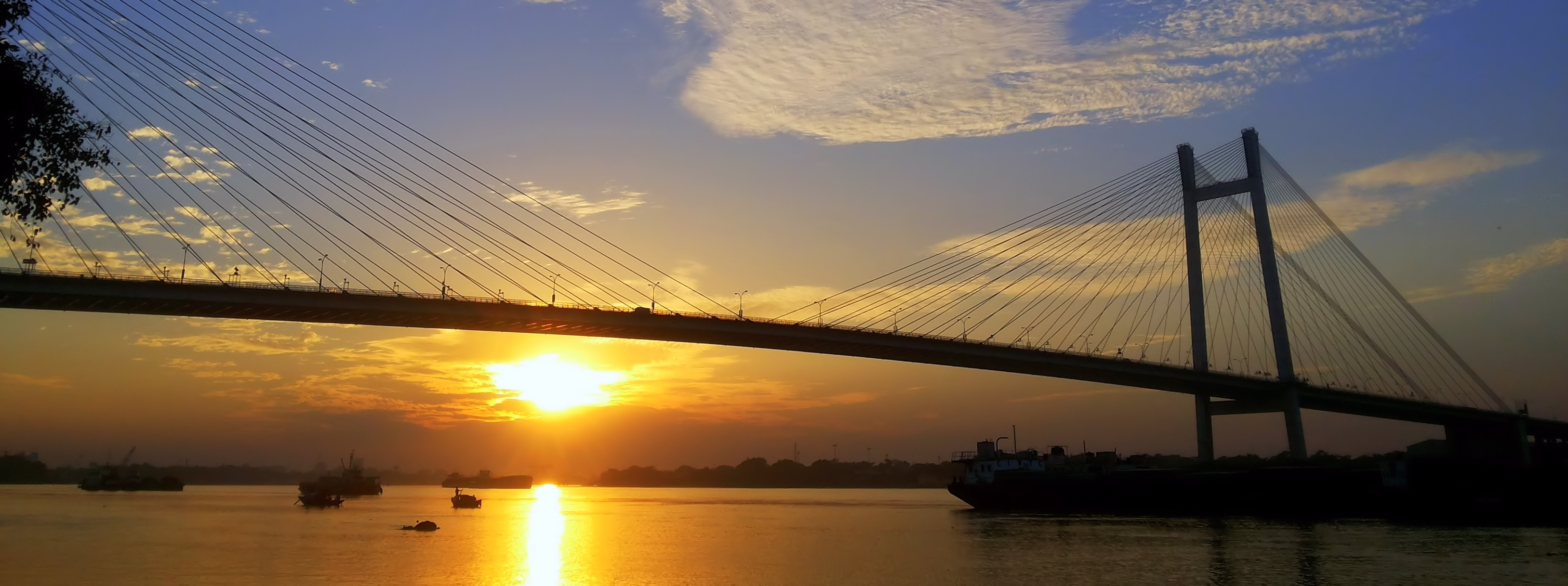 A panoramic view of the Vidyasagar Setu, Kolkata